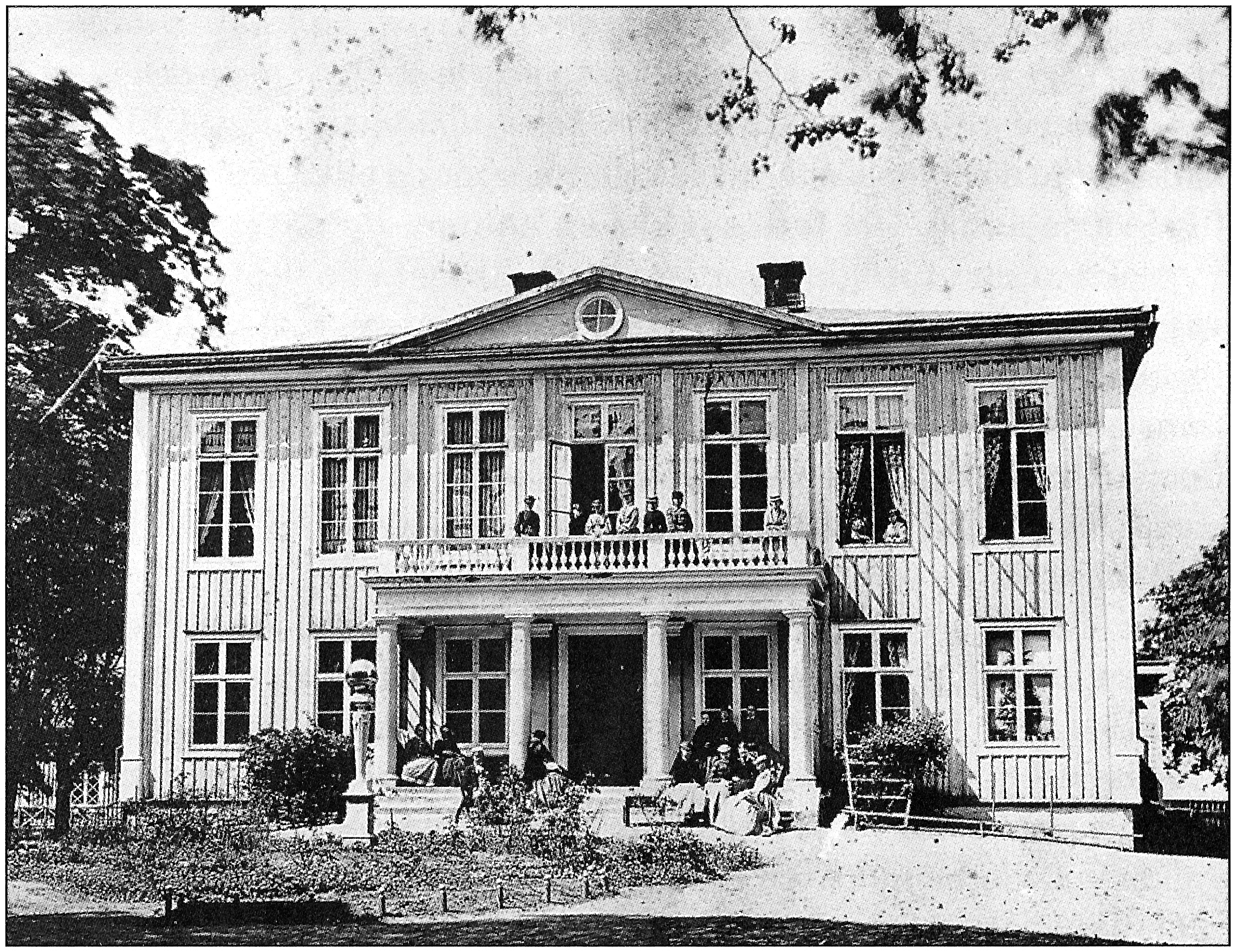 Rostad at the time of Cecilia Fryxells living and school there 1858-1877